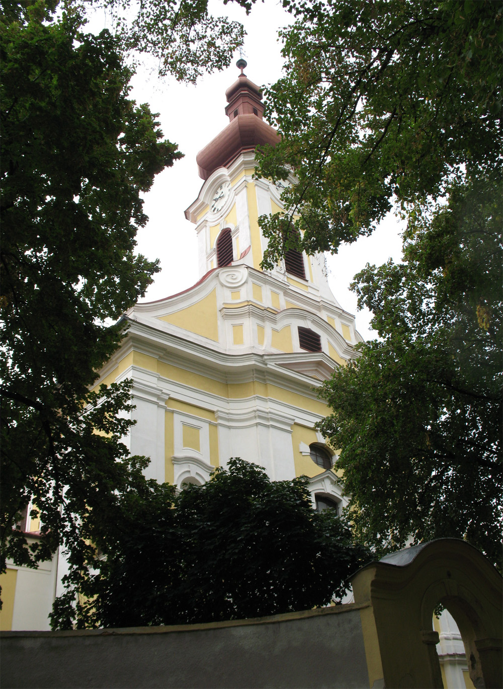 Church of MočenokSlovenčina: Kostol svätého Klementa v Močenoku